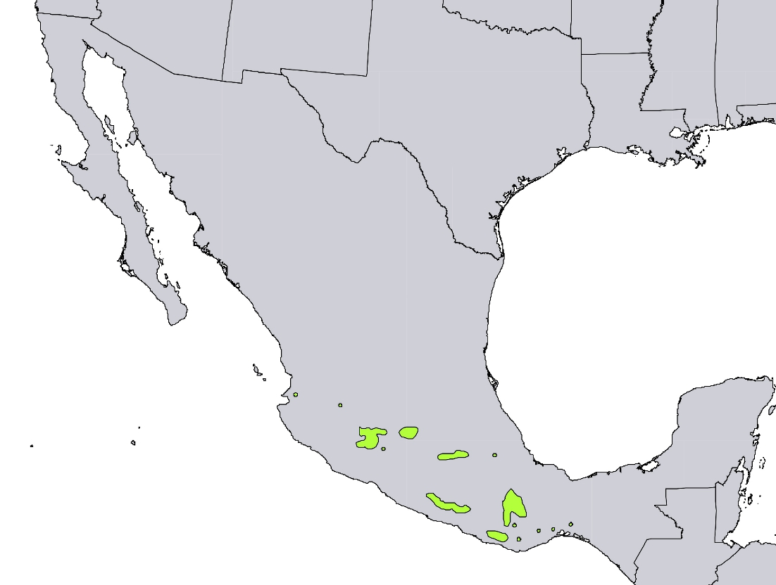 Range map of Pinus lawsonii